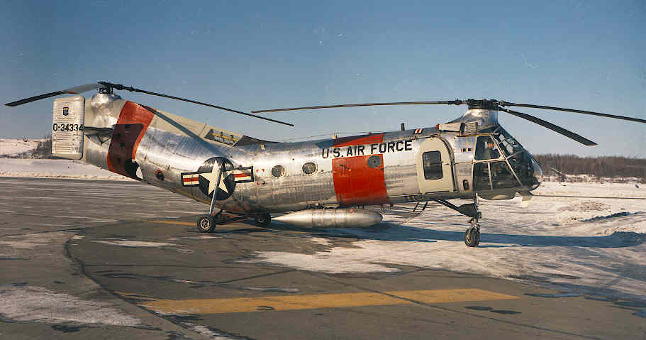 H-21B, 5017th Operations Squadron, Elmendorf AFB, early 1960s from